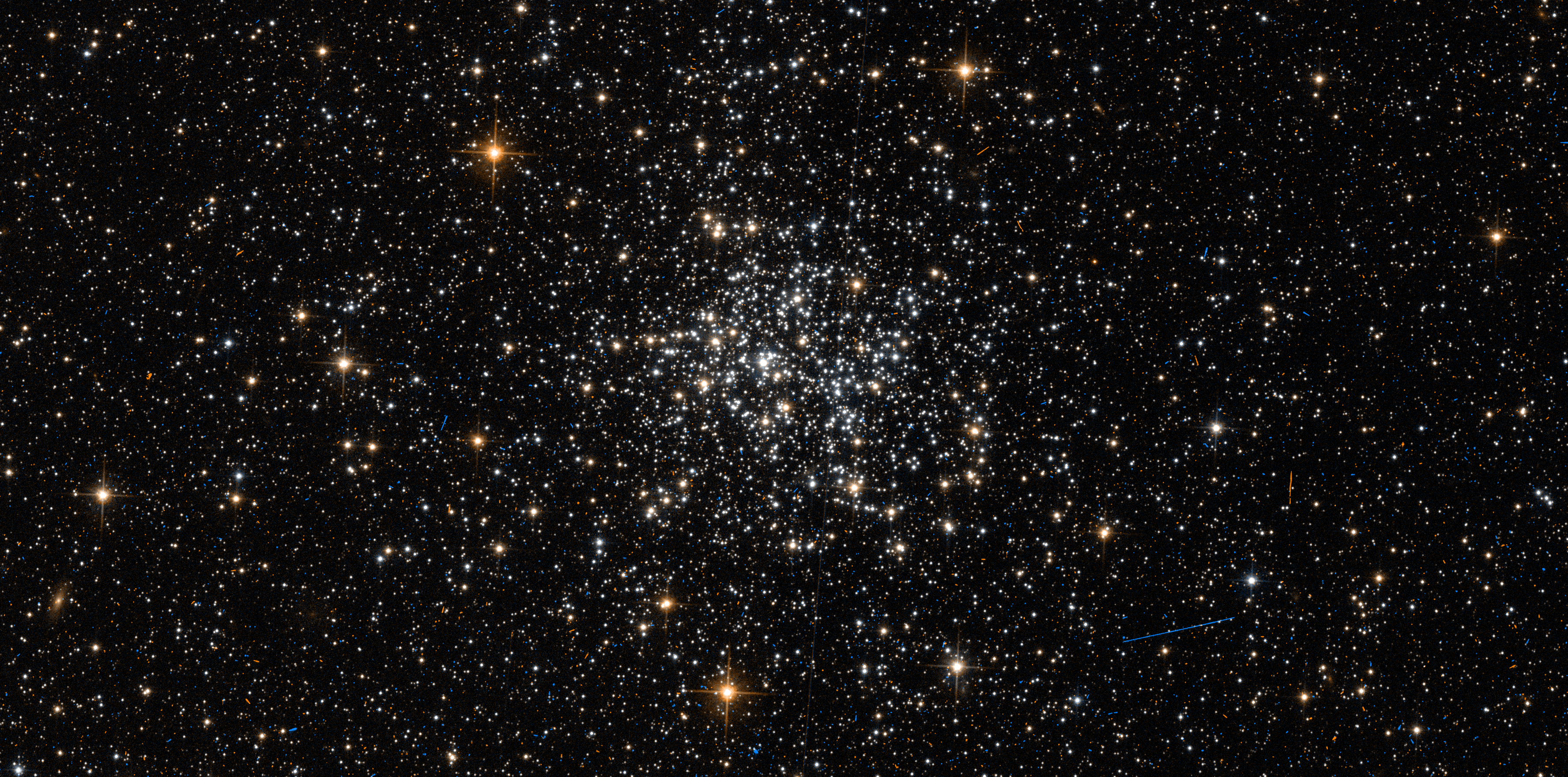 Color rendering is done by by Aladin-software (2000A&AS..143...33B.)